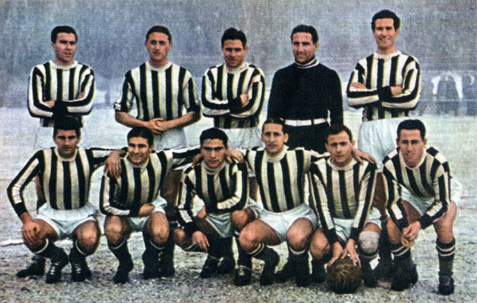 A line-up of Juventus in the 1940–41 season. From left to right, standing: F. Borel (II), P. Rava, A. Foni, A. Bodoira, G. Varglien (II); crouched: G. Colaussi, T. Depetrini, F. Capocasale, G. Gabetto, M. Bo, R. Lushta.